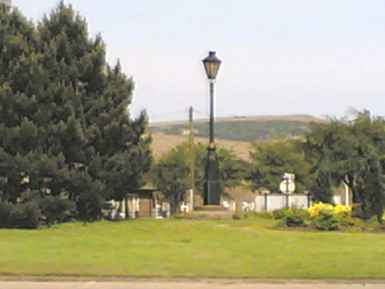 Photograph of the 'Big Lamp', a landmark of Shaw and Crompton. Taken July 2, 2006 from the South West corner of the round about it is situated in.